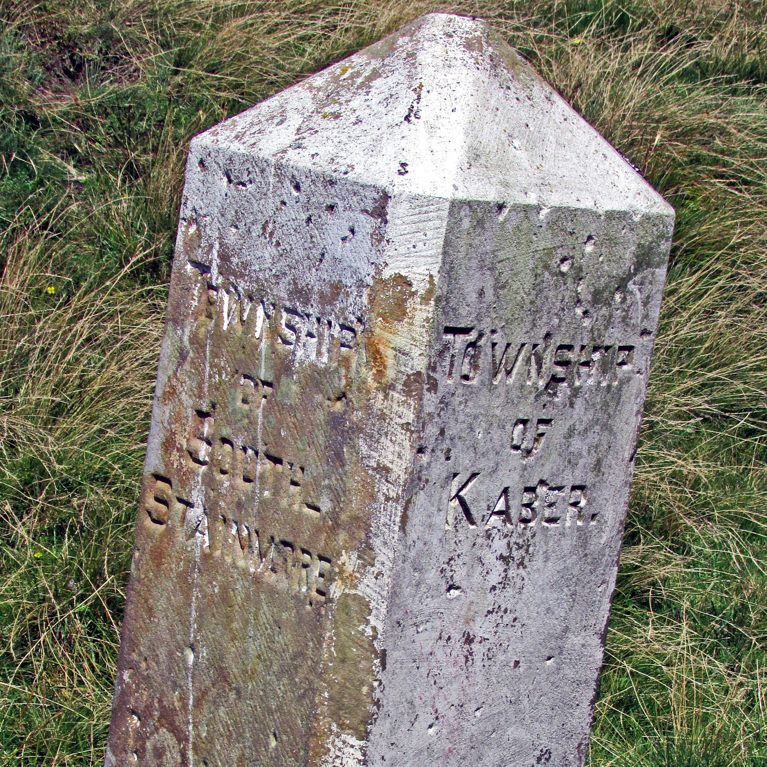 Kaber, Cumbria - Marker stone indicating the boundaries of Kaber parish and South Stainmore parish in former Westmorland, on the minor road leading SE from Barras over Kaber Fell to Tan Hill.